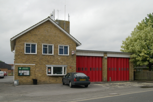 Wantage fire station, Ormond Road, Wantage, Oxfordshire, seen from the south